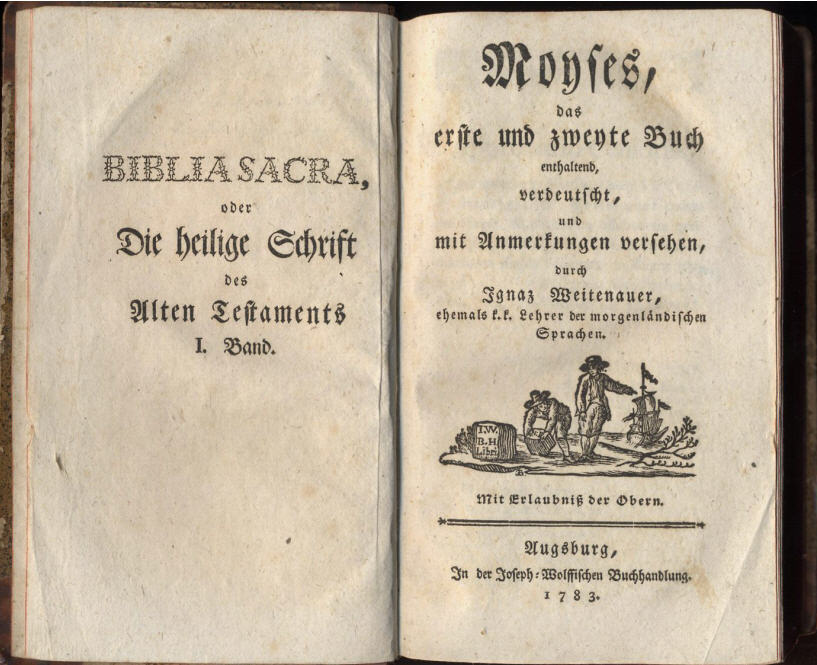 Bible translation from the jesuit and professor for oriental languages Ignaz Weitenauer, printed at Joseph-Wolffische Buchhandlung, Augsburg 1783